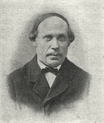 Picture of Sorabian/Wendish composer Korla Awgust Kocor (1822-1904)